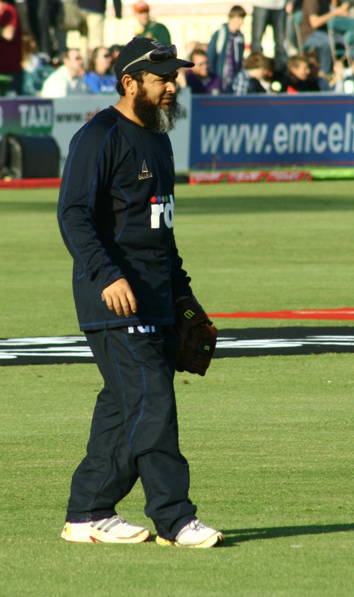 Mushtaq Ahmed at the County Ground Hove in May 2009